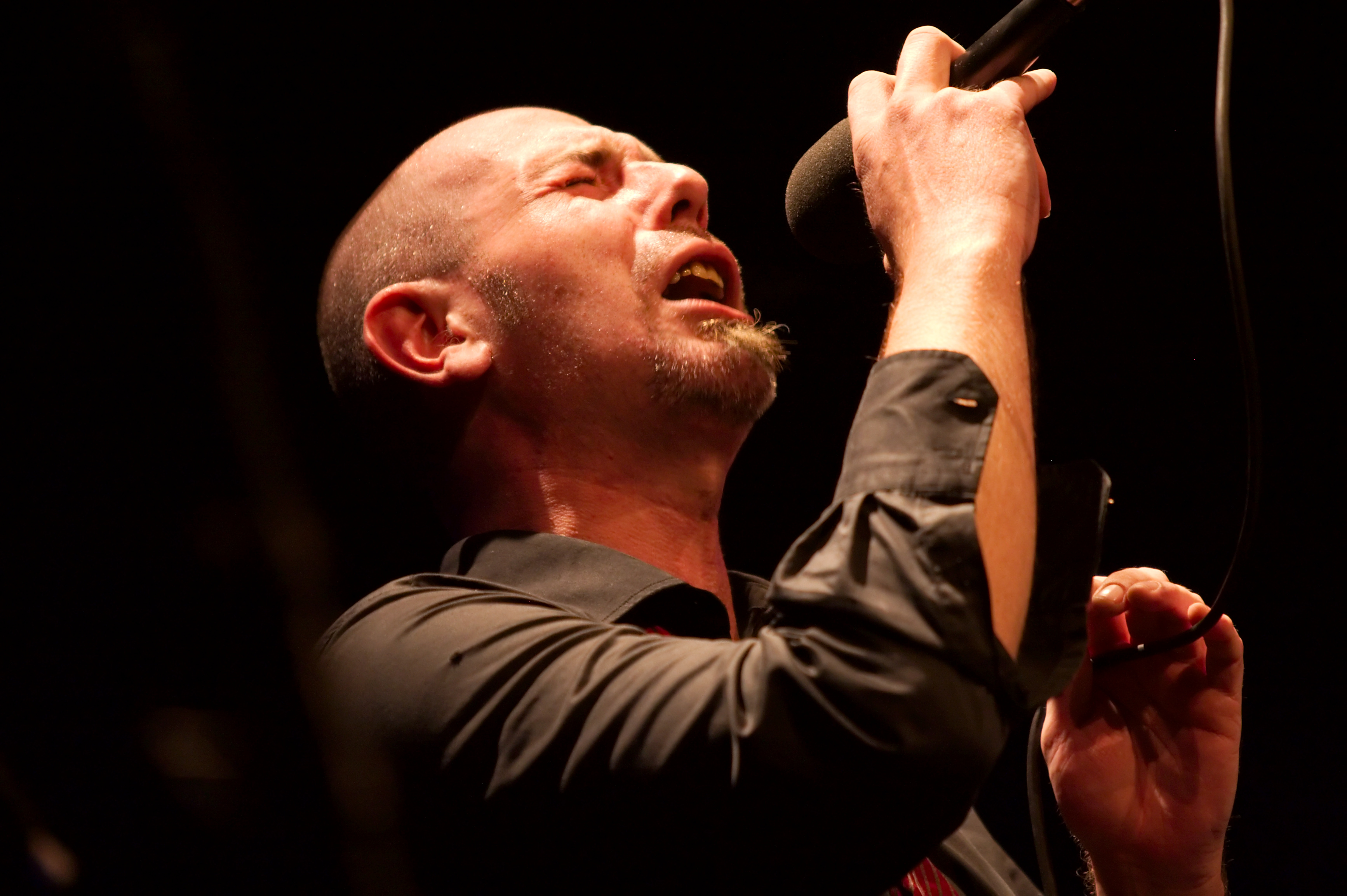 Weepers Circus live at Aix-en-Provence (France) for the French song festival 2009.